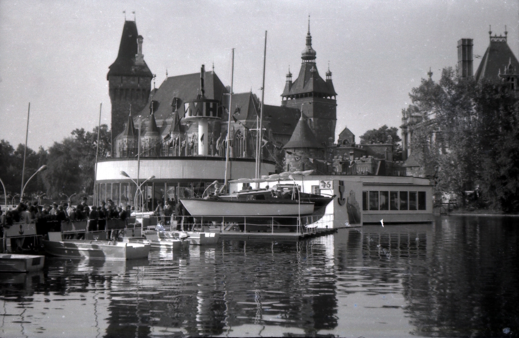 Budapest International Fair 1969, the shipping industry pavillon on the Városliget Lake